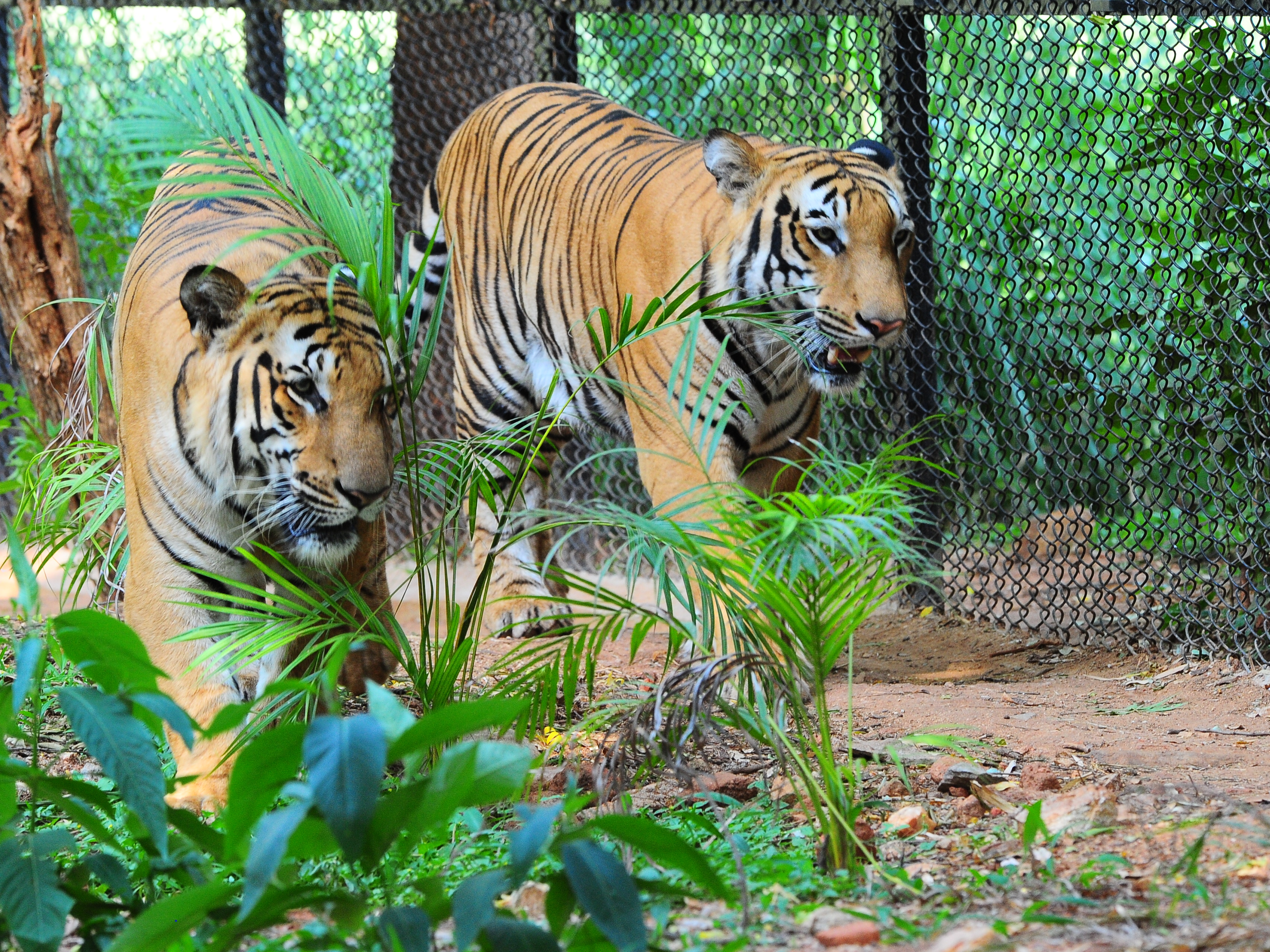 Rama & Lakshmana